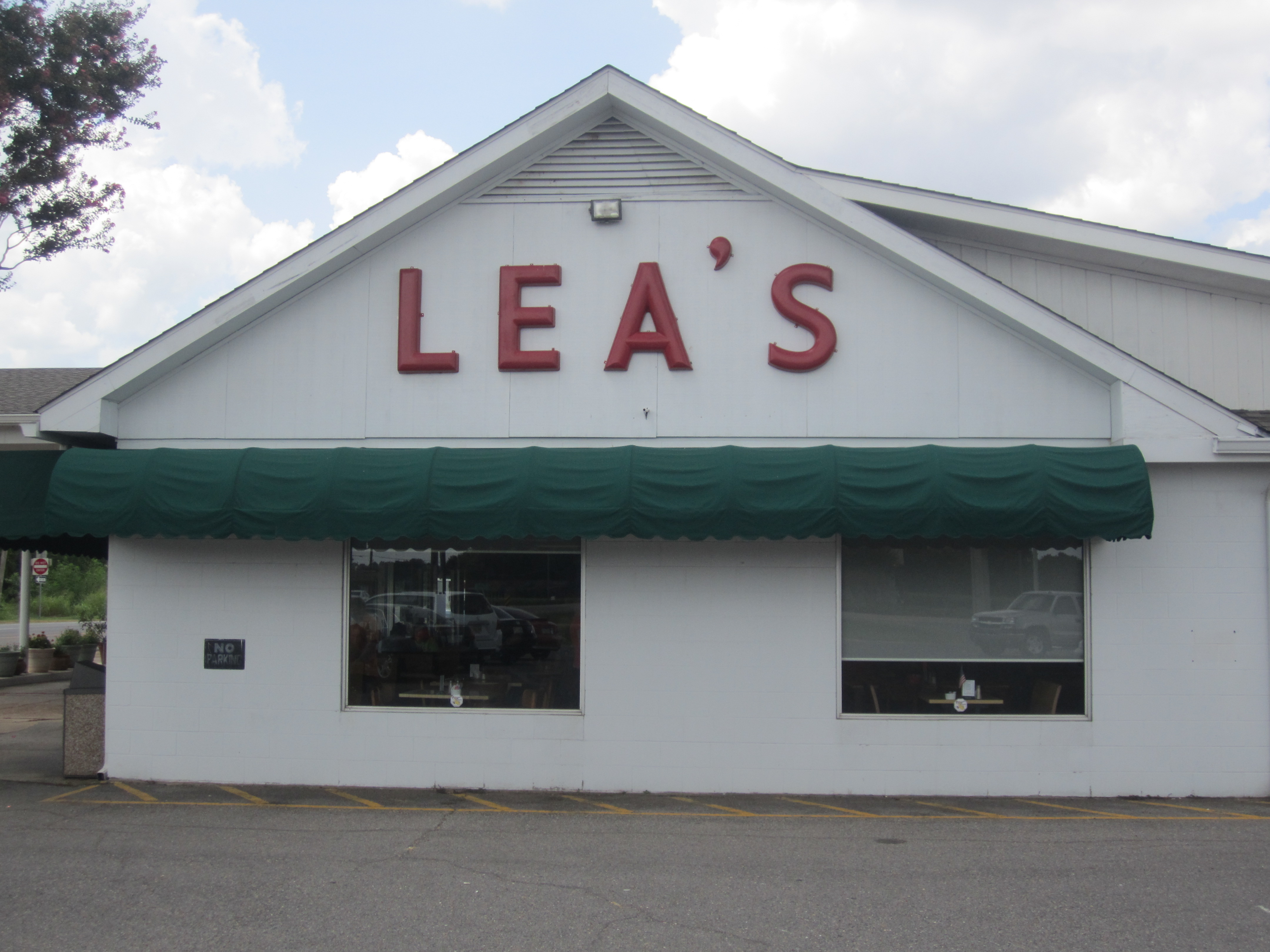 I took photo with Canon camera in Lecompte, LA.